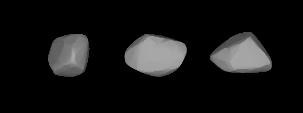 A three-dimensional model of 1987 Kaplan that was computed using light curve inversion techniques.